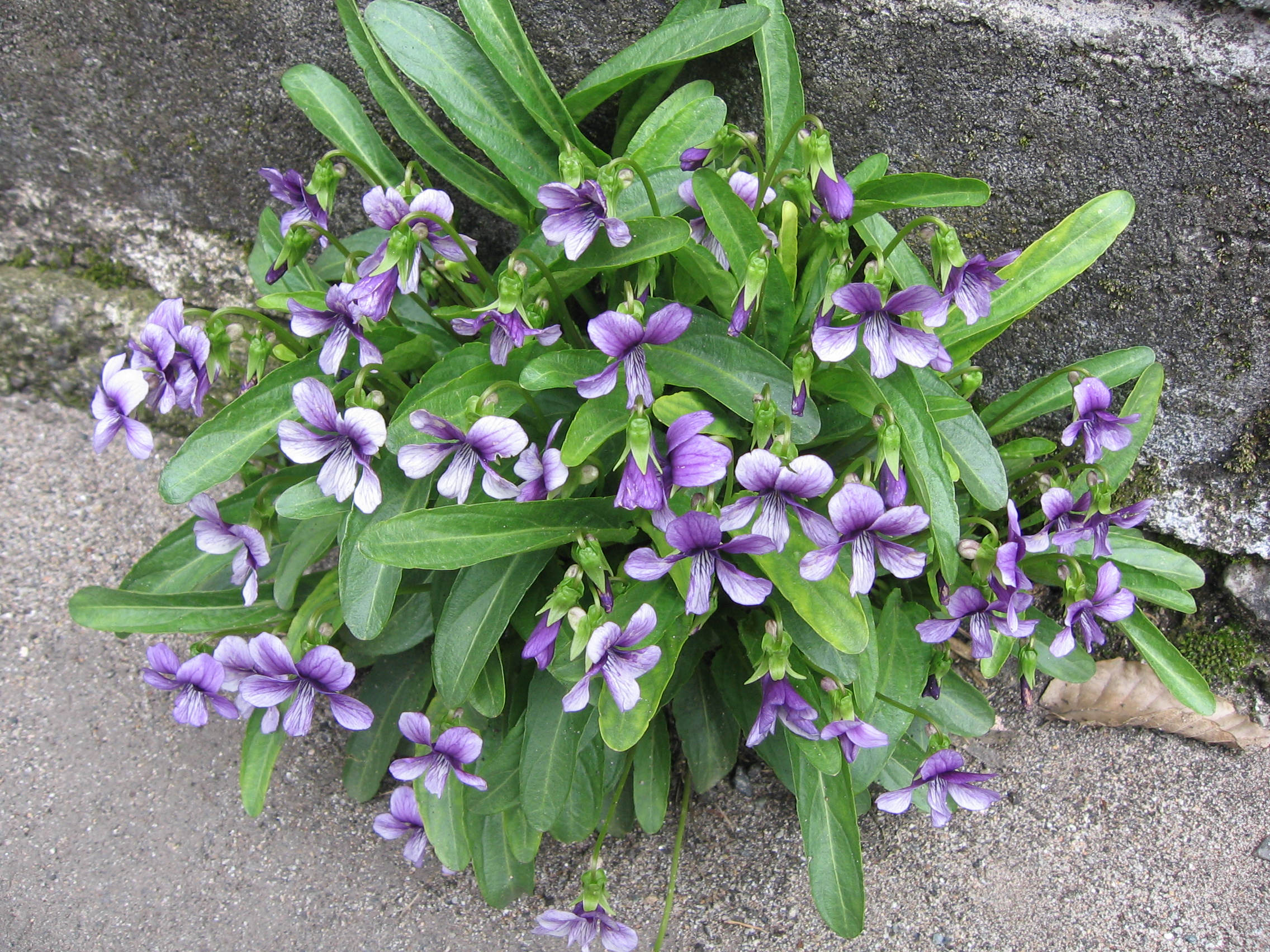 Viola mandshurica